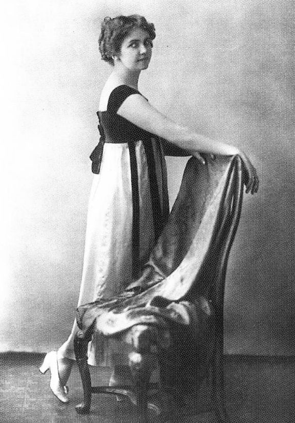 Dagmar Parmas, Finnish lyricist